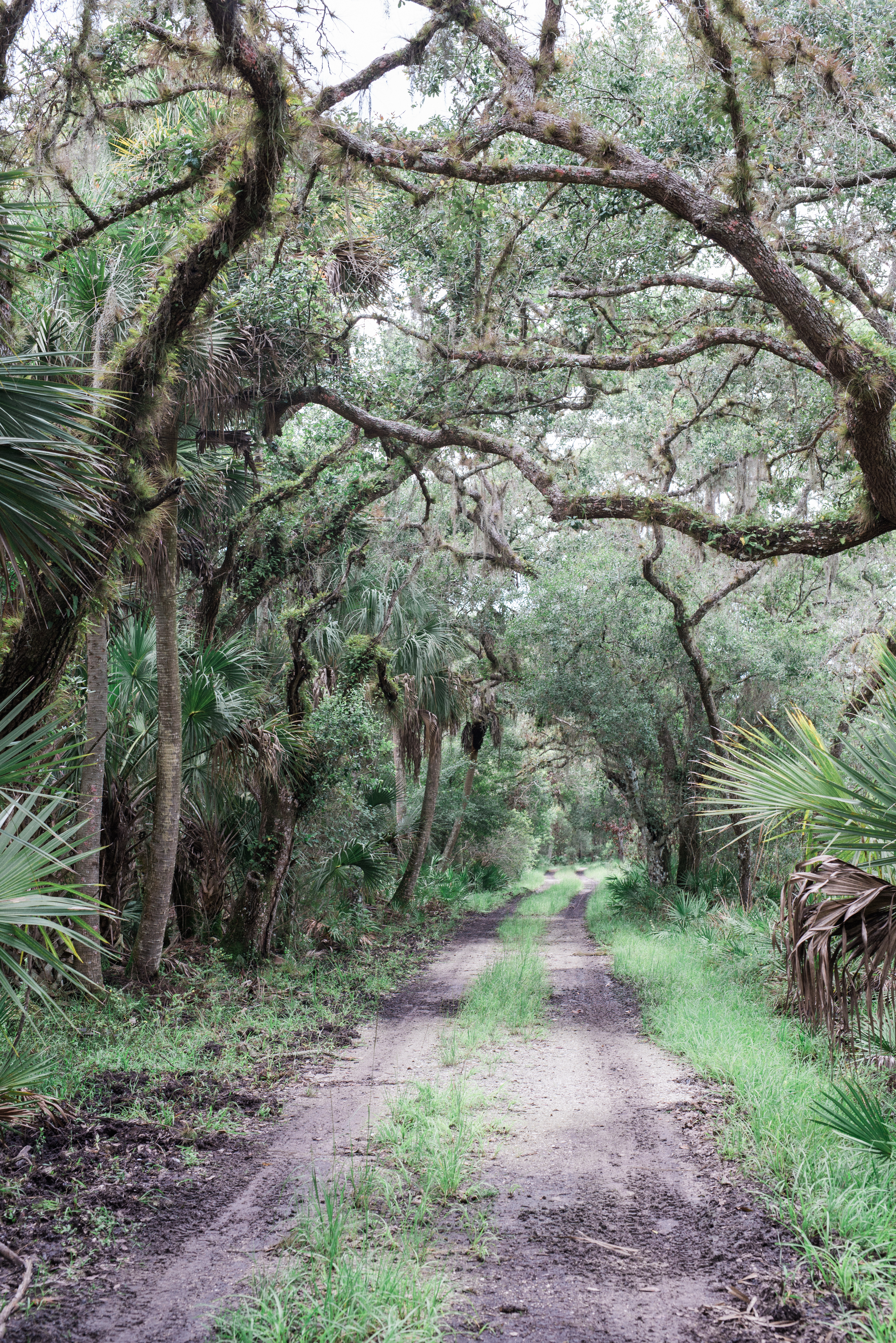 View of a trail in Myakka River State Park during the summer. All the land once belonged to Bertha Palmer who also owned most of Sarasota County.